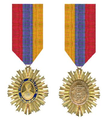 Order of the Liberator